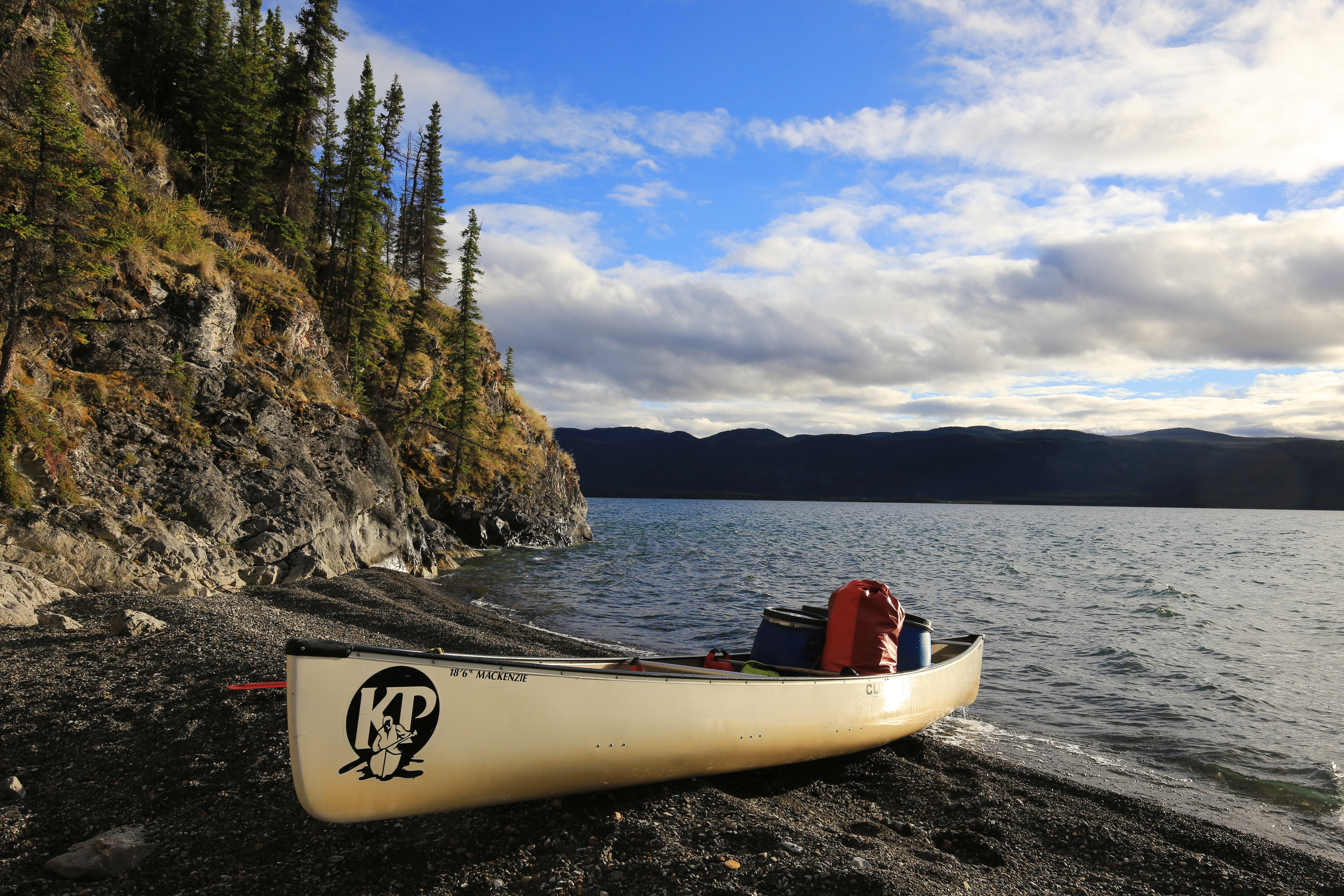 Canoing on the Yukon River, Yukon, Canada between Whitehorse and Carmacks